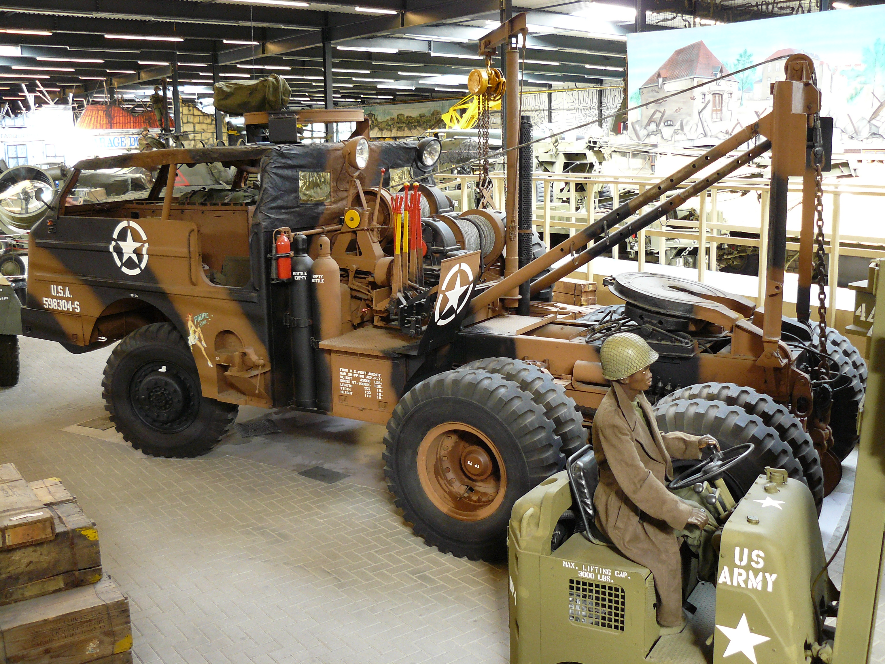 M26A1 (unarmed) tractor, with A-frame erected for recovery work as seen in Marshall Museum, Overloon, Netherlands